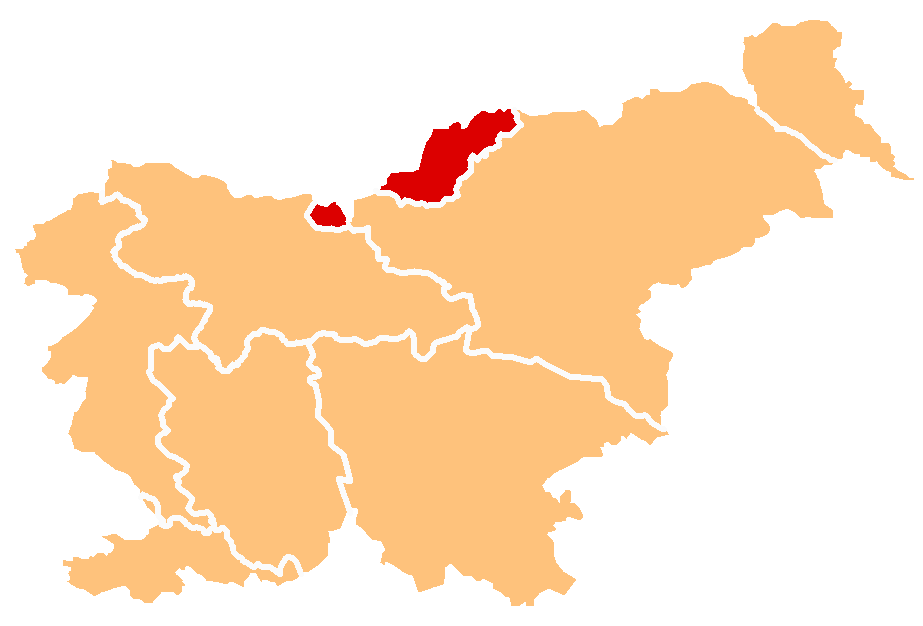 One of the maps of Slovene traditional regions (Slovene lands) in present-day Slovenia